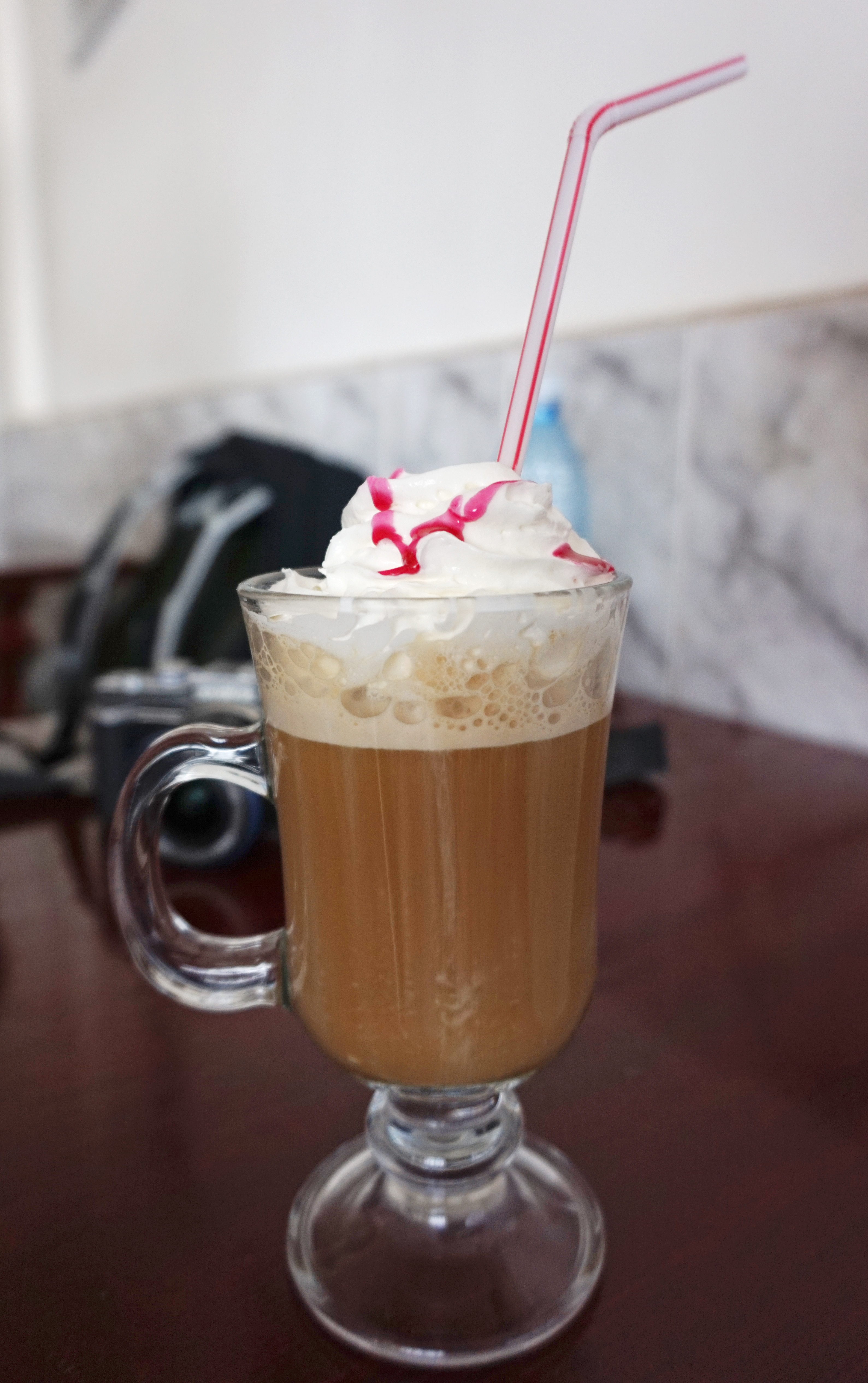 Cappuccino in a transparent glass on Bucegi Natural Park, Romania. This photograph was taken with a Sony Alpha a5000.